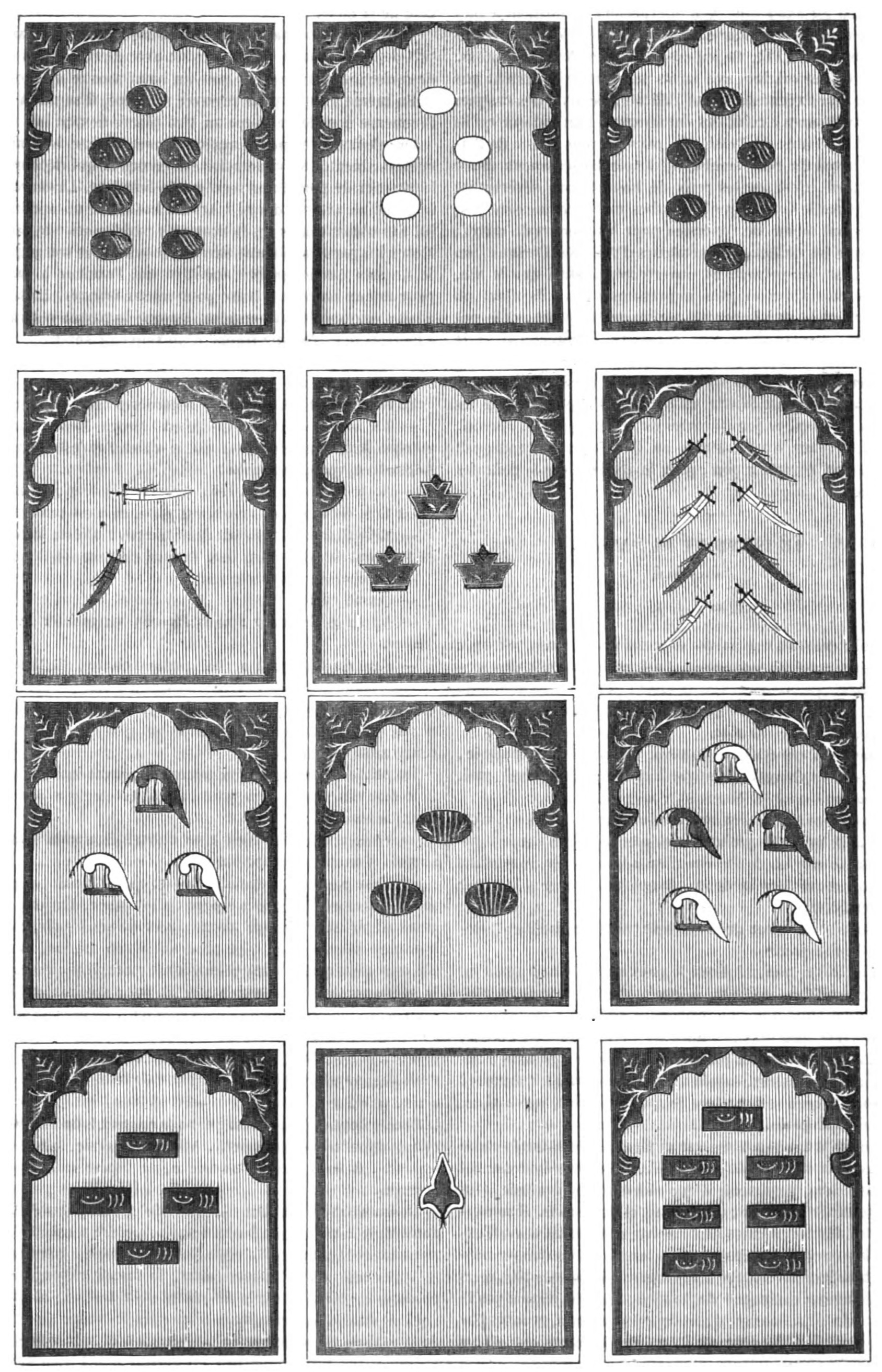 Images of ivory playing cards bought in a Cairo bazar by French traveller Mr. Émile Prisse d'Avennes (1807-1879), during his visit to Egypt in the period 1827-1844. He identified them as Persian by the style and quality.